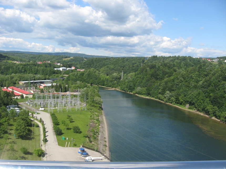 San River. Leakage from the Lake Solina. The river in south-eastern Poland.